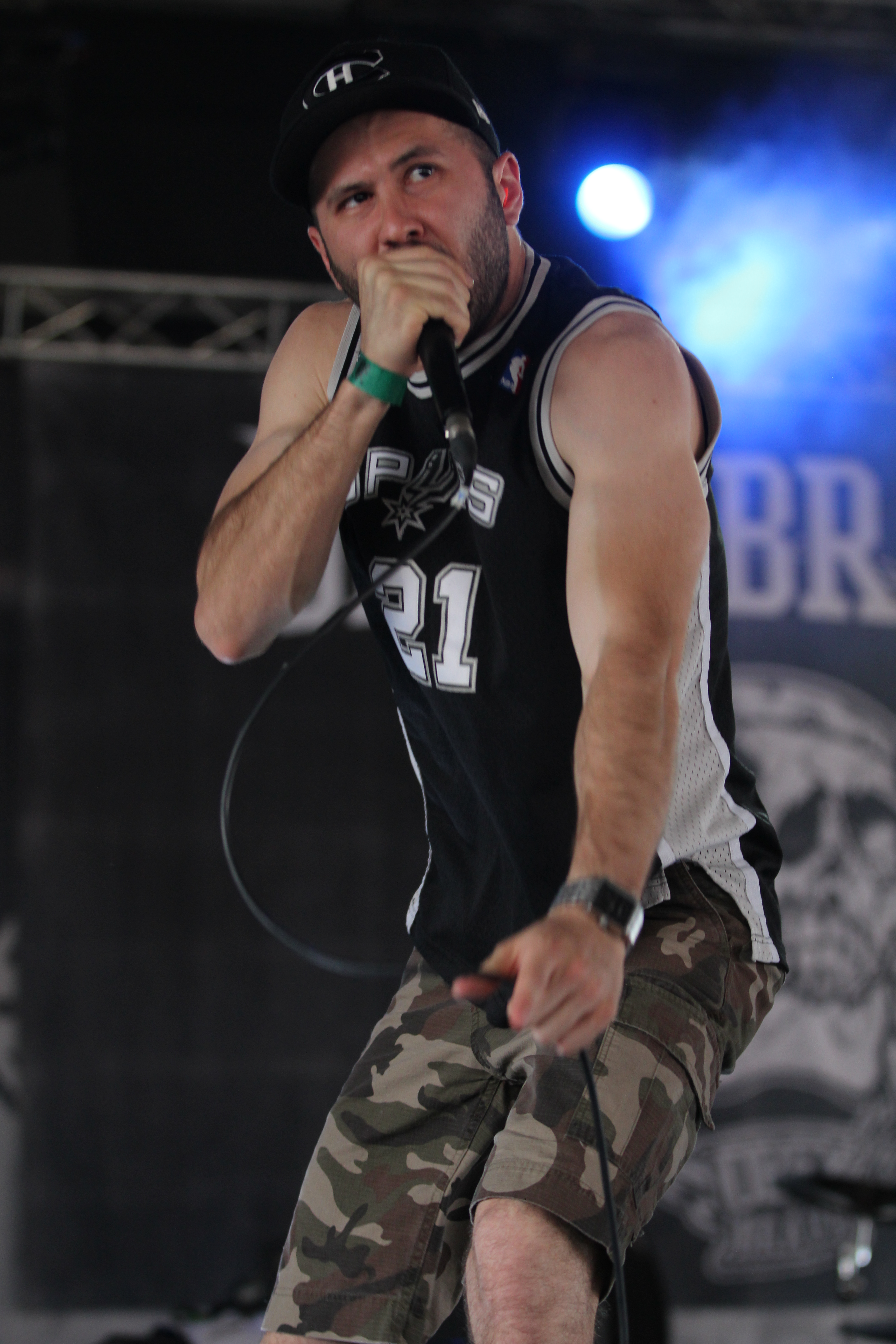 The Canadian metalcore band Obey the Brave at the With Full Force festival 2014 in Roitzschjora/Germany